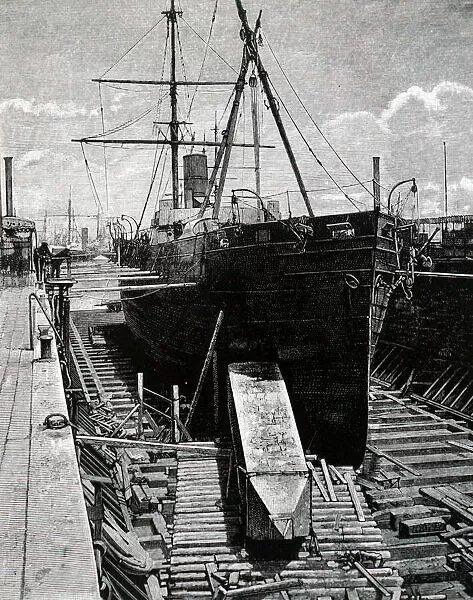 Placing the Cleopatra's Needle Obelisk in the Hold of the Steamship Dessoug, on its way to Central Park in New York City, 1880